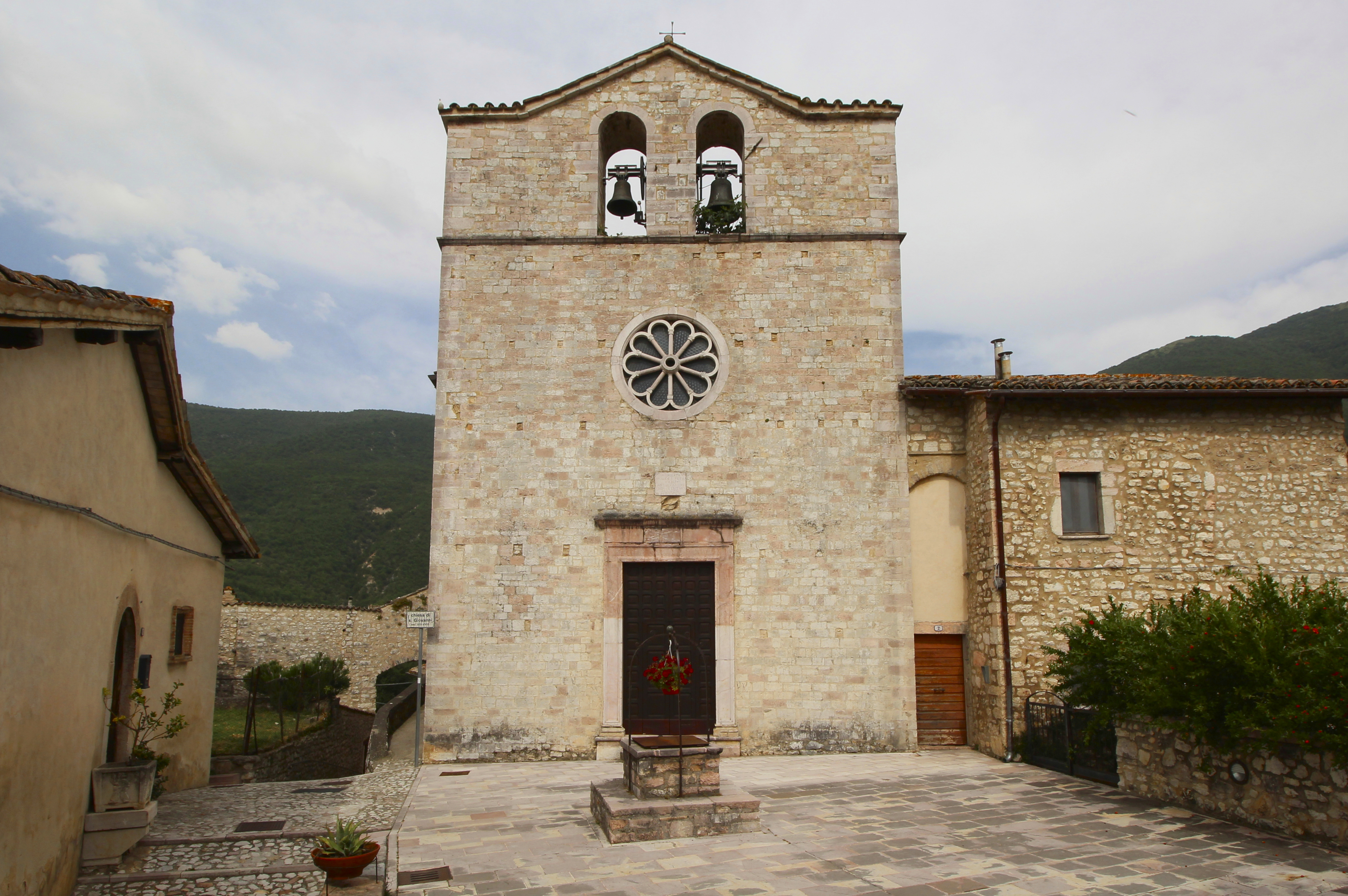 Church San Giovanni Battista, Vallo di Nera, Umbria, Italy